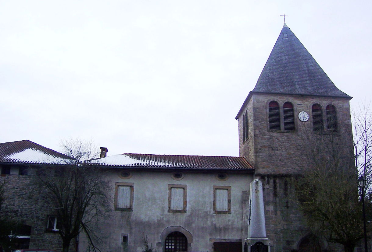 Church of Gorses.